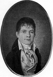 Heinrich Hössli (1784-1864) as a young man. Early 19th century miniature.